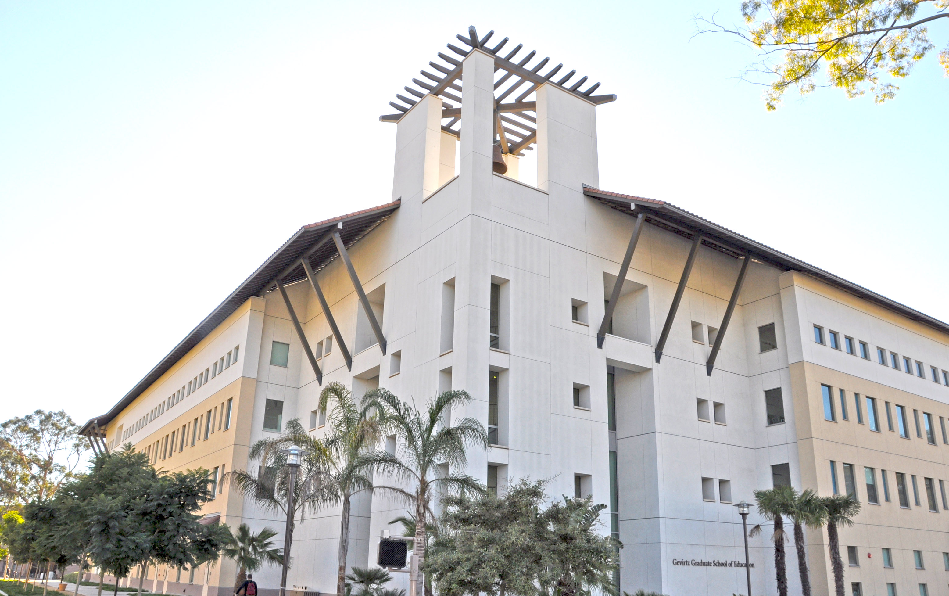 An exterior shot of the Gevirtz Gradaute School of Education at UC Santa Barbara. The building was opened in 2009.